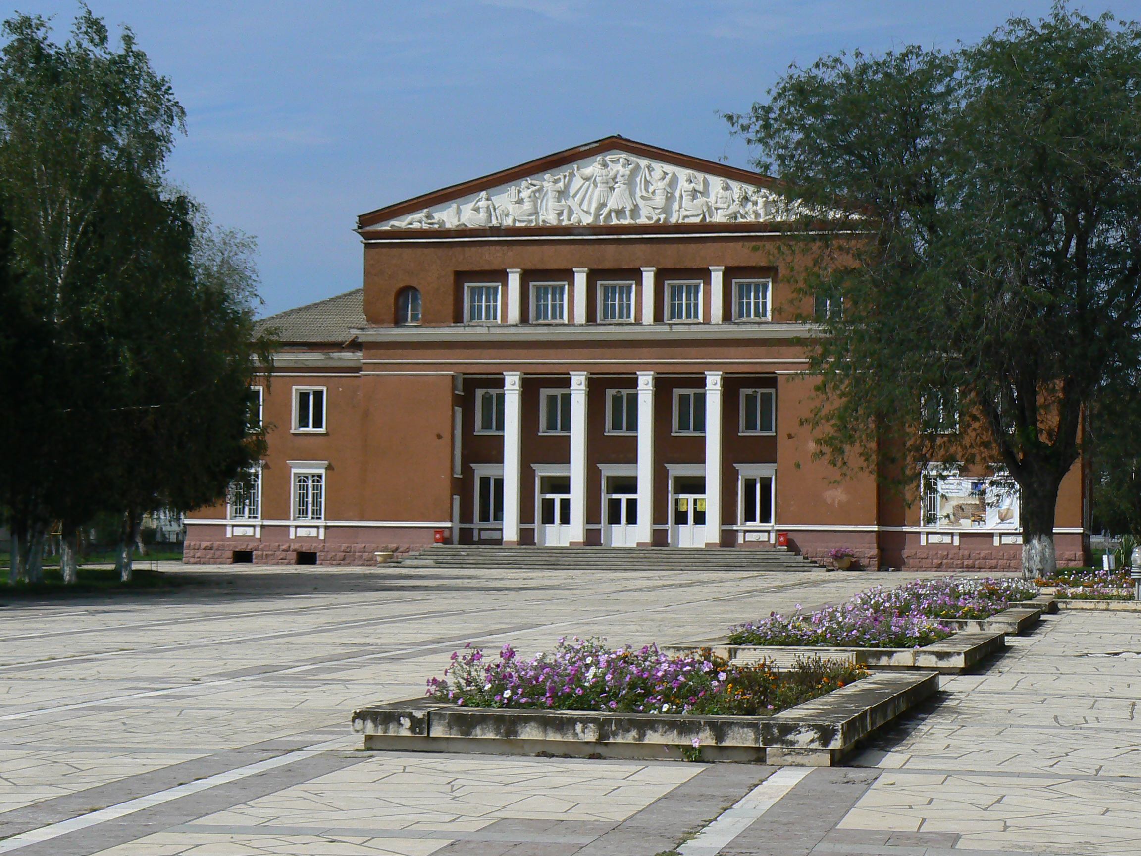 The Community centre in the town of Lukovit, Bulgaria